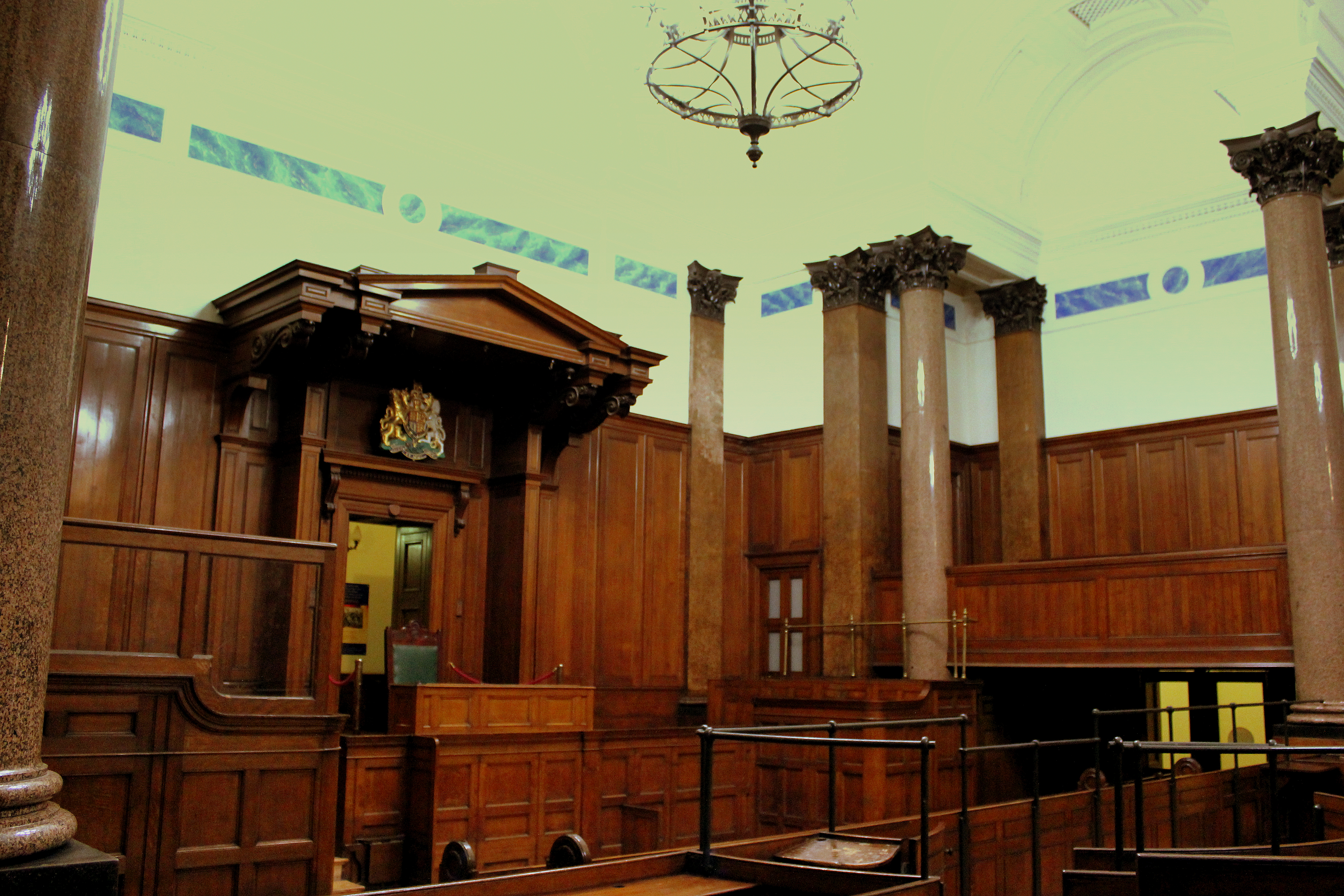 THE CROWN COURT NO1 ST GEORGES HALL LIVERPOOL JAN 2013